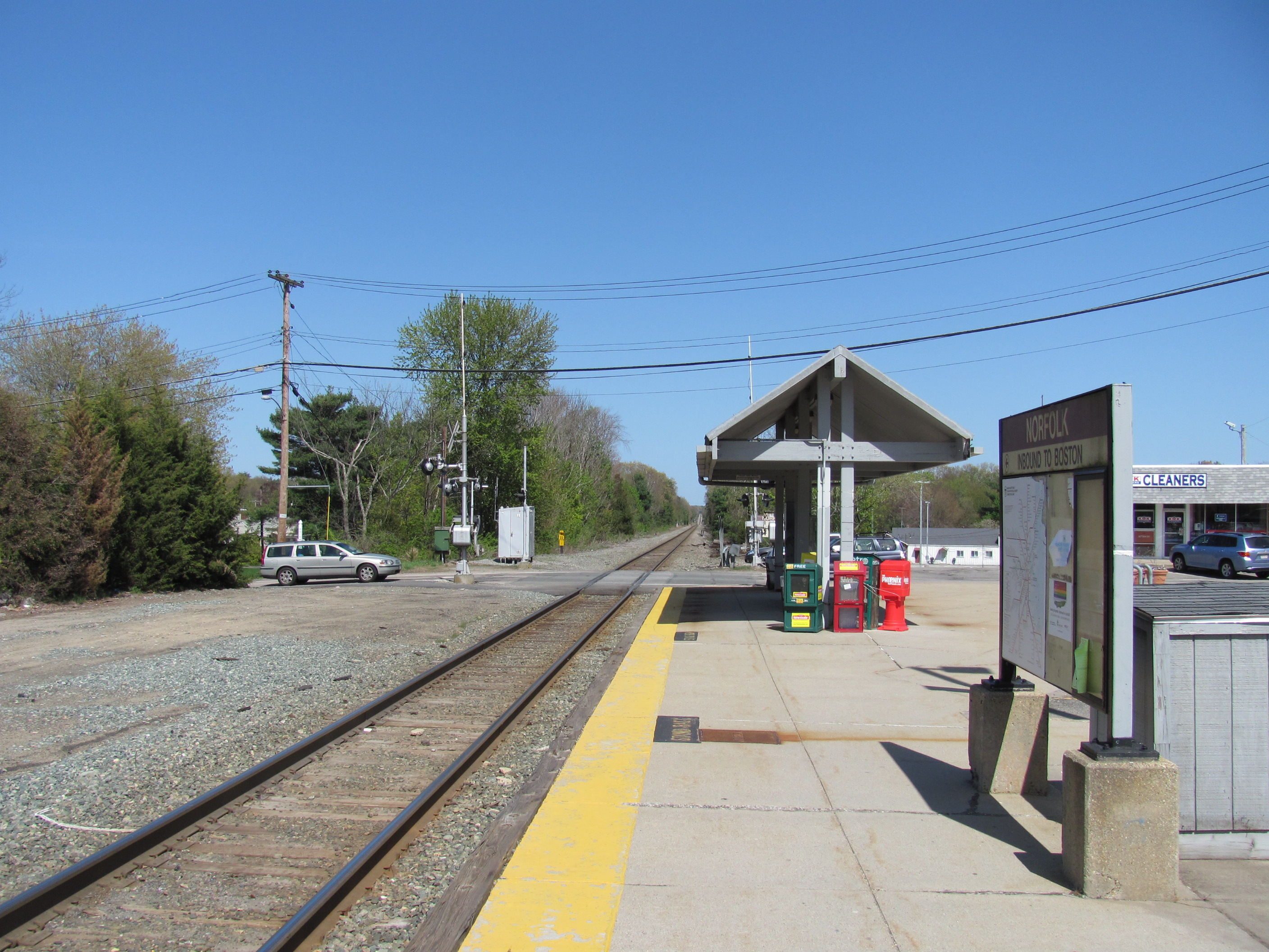 Norfolk MBTA Station, Norfolk Massachusetts